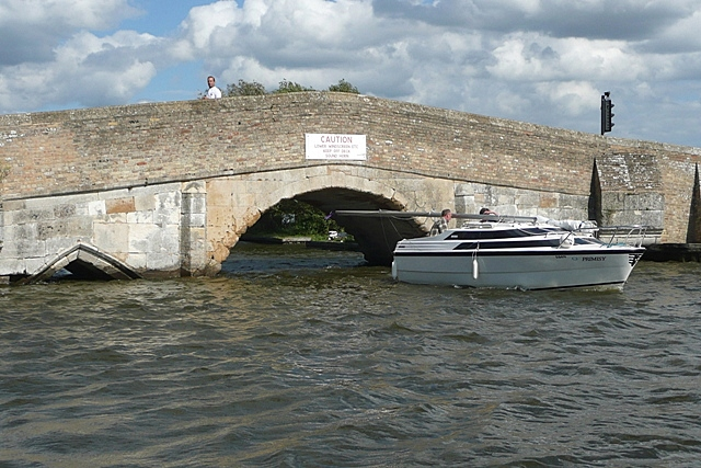 Heigham bridge A popular spot for having lunch or an ice cream, feeding the swans and ducks and watching the boats navigate this tricky low bridge. Although usually called Potter Heigham old bridge, the OS 1:25K and 1:50K maps correctly calls it Heigham Bridge (without the Potter). Potter Heigham Bridge is the new one to the north-east. Also for the purists, I established with GPS that all of this south-west face except the buttress on the right is in this square, the north-east face is in TG4218.